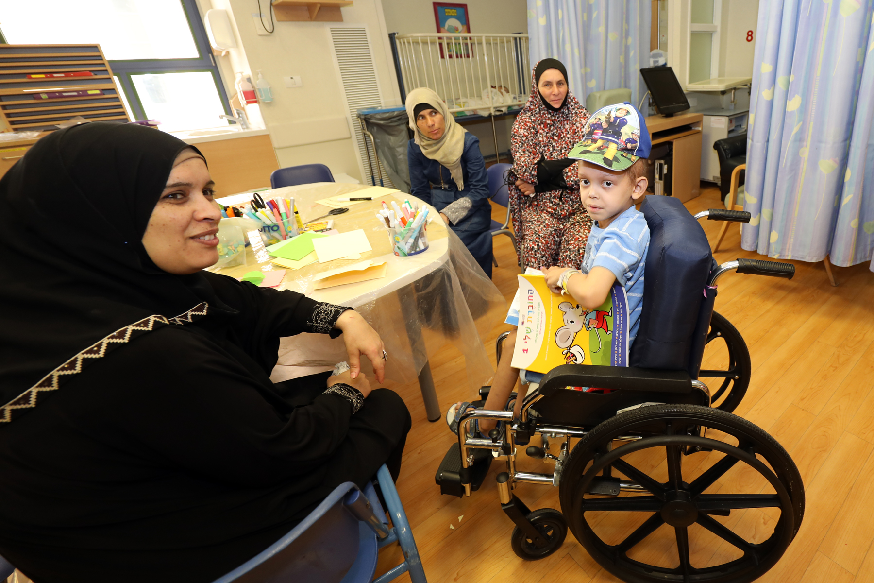 Governor Hogan Medical Cooperation Between Maryland And Isreal by Steve Kwak at Kiryat Hadassah, Jerusalem